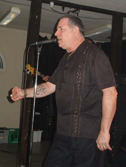 Rockabilly singer Robert Ira Gordon performs live in Denmark in 2007.